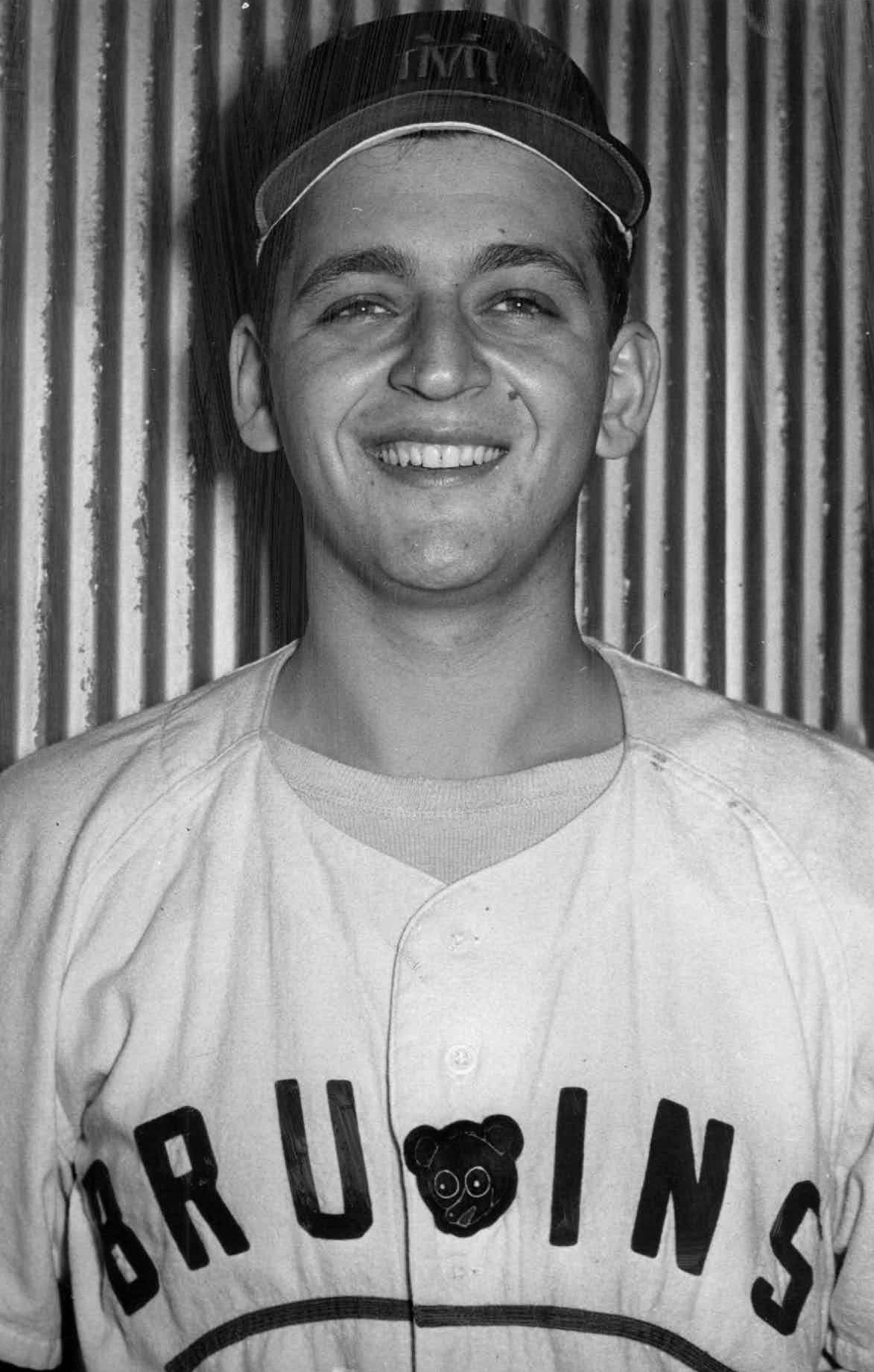 Professional baseball player Hy Cohen